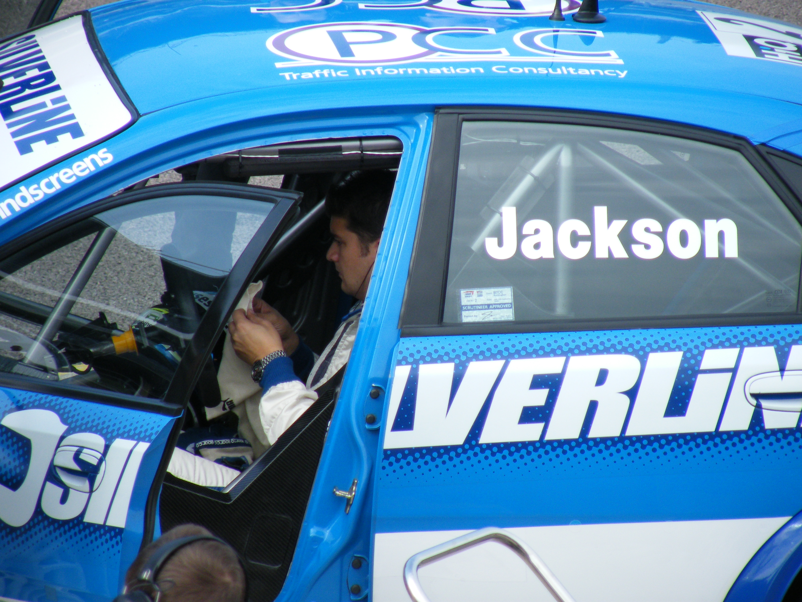 British Touring Car Championship driver Mat Jackson in his RML Chevrolet at Rockingham Motor Speedway in 2009 preparing for the race start.